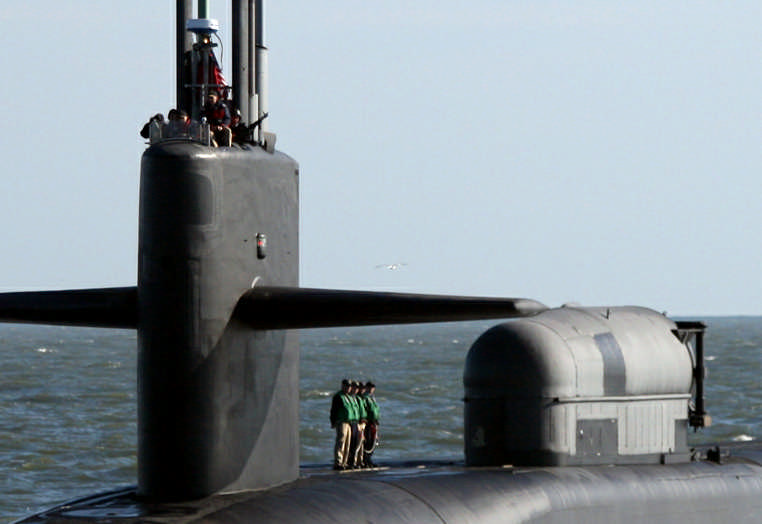 Advanced SEAL delivery system (ASDS) on board USS Georgia (SSGN-729)